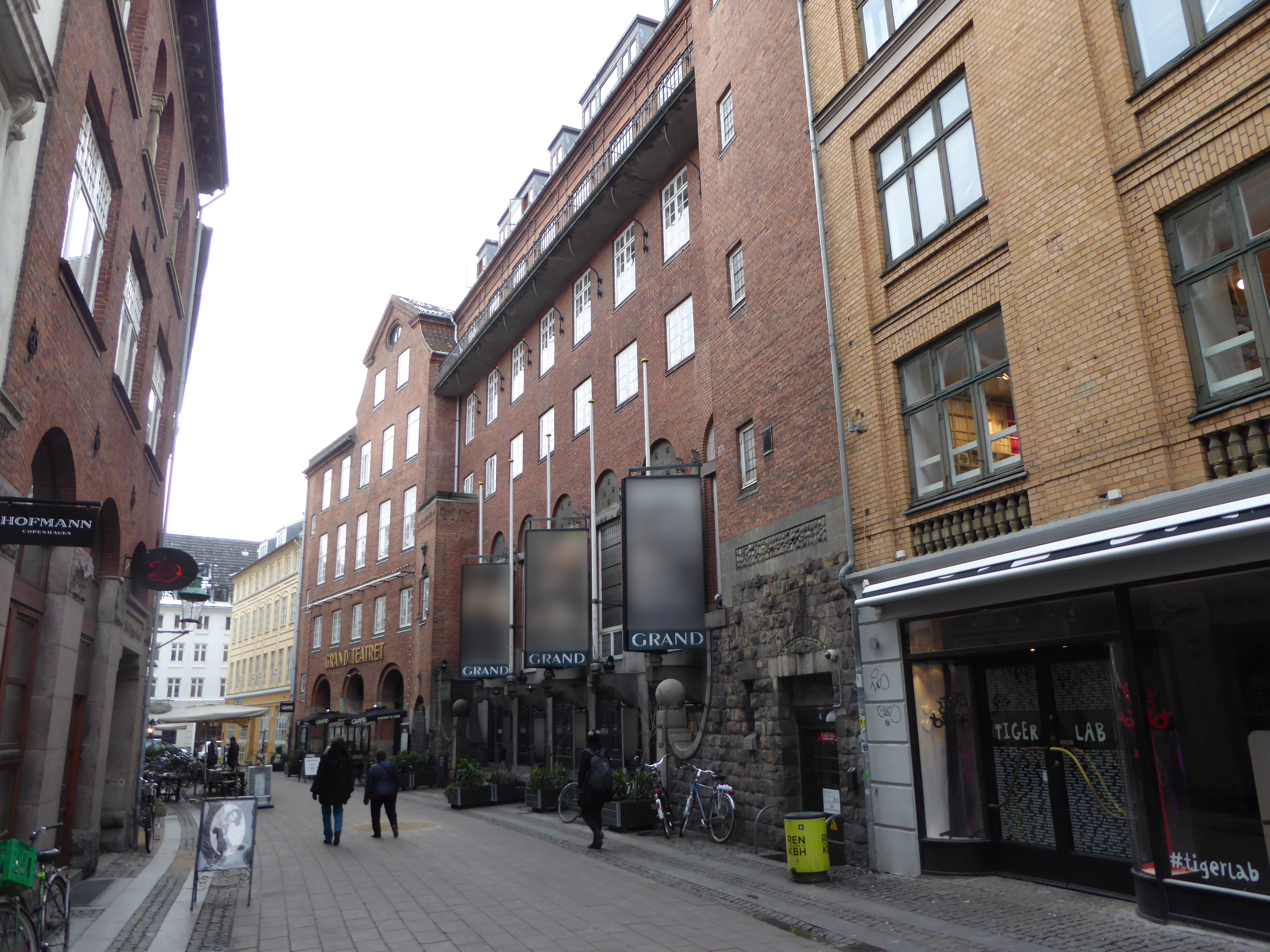 The cinema Grand Teatret at Mikkel Bryggers Gade in Indre By in Copenhagen.